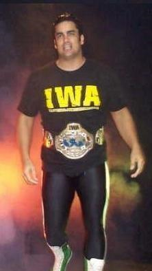 Professional wrestler Ray González during his tenure as the International Wrestling Association's World Heavyweight Champion.